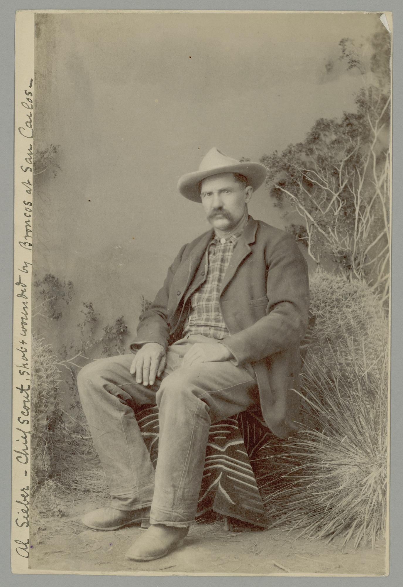 Al Seiber, Head Scout, with Blanket 1886. Shot and wounded by Broncos at San Carlos